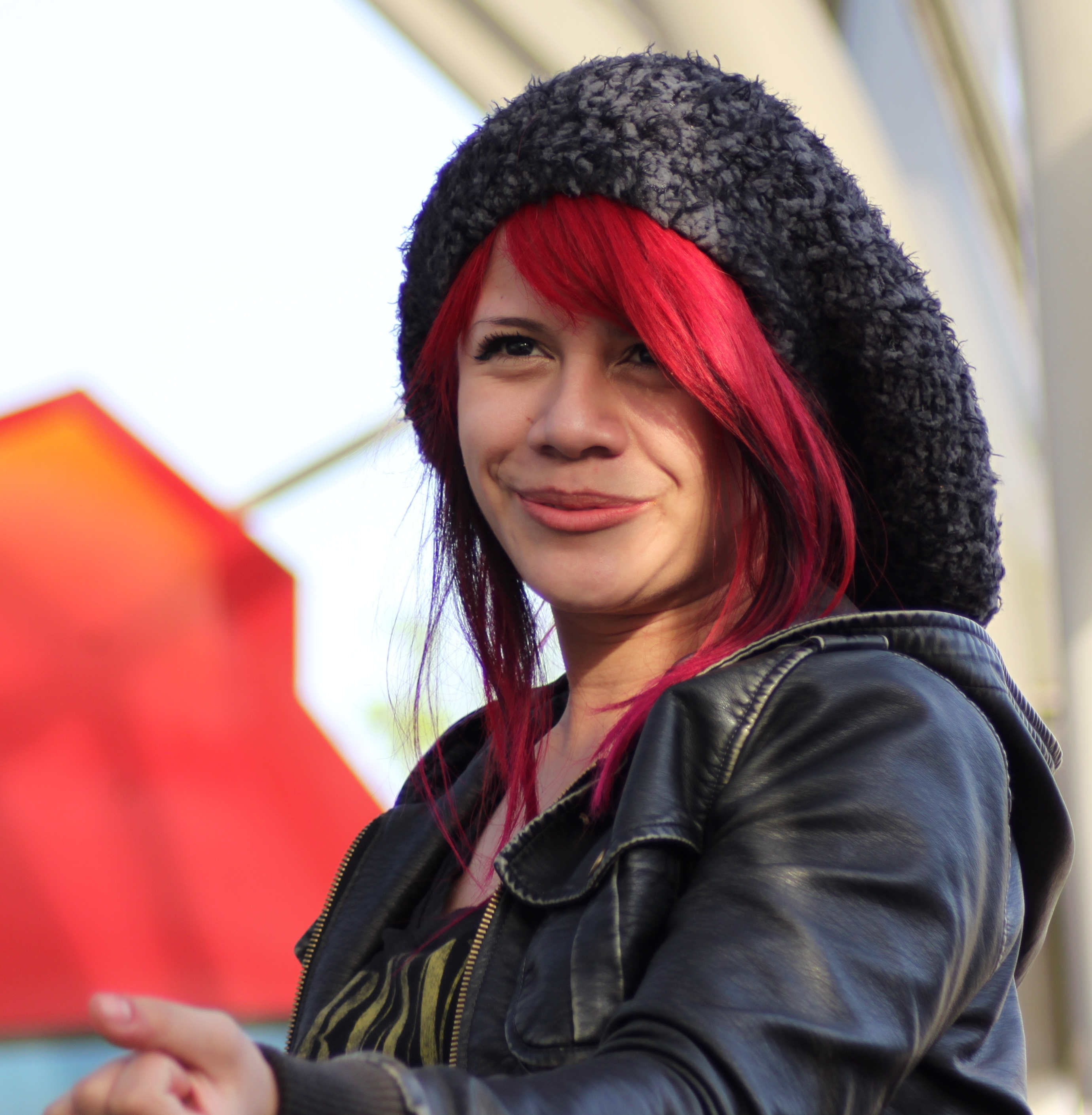 Allison Iraheta in Los Angeles, California.